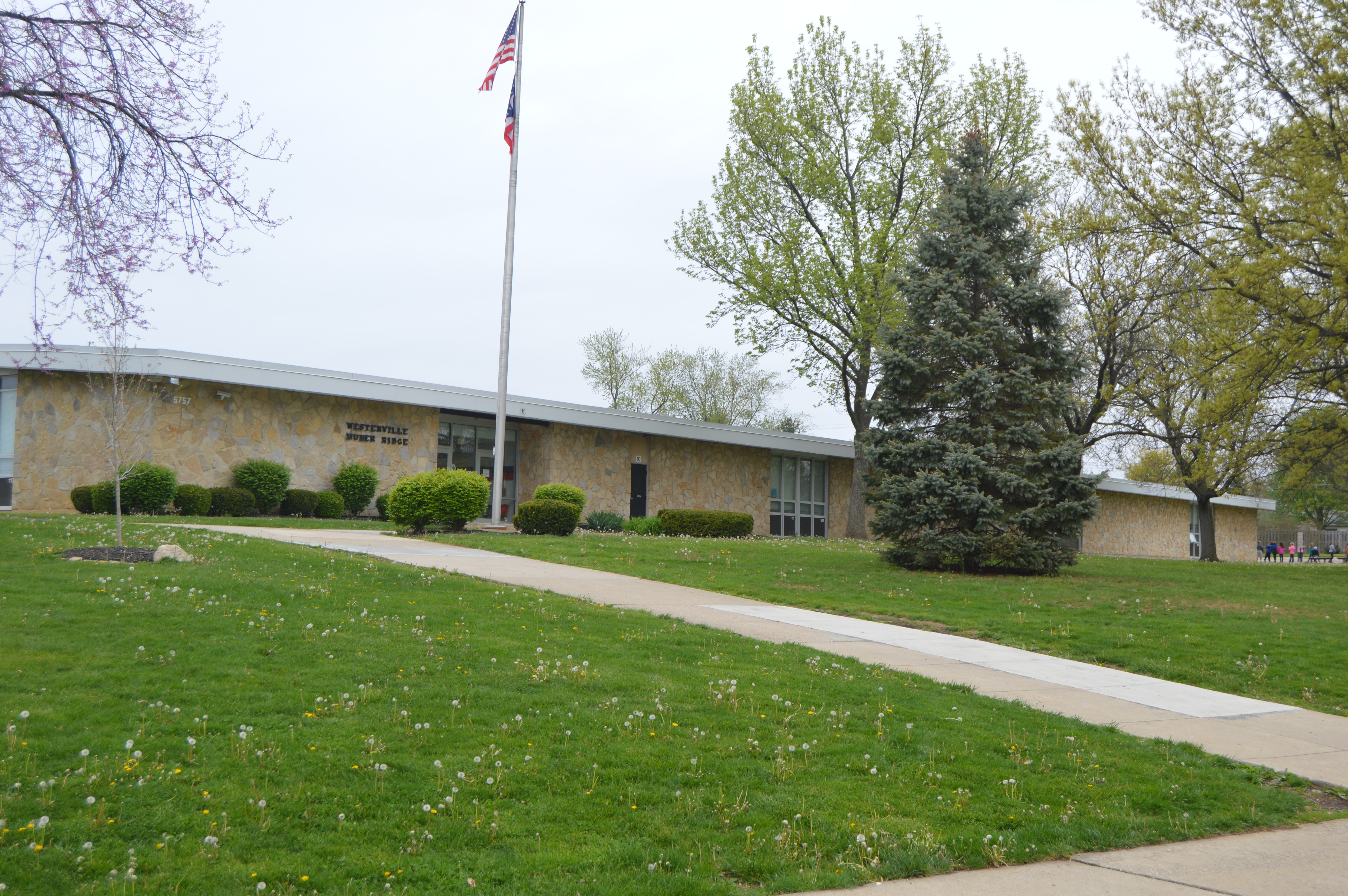 Front of Huber Ridge Elementary School, located on Buenos Aires Boulevard in Huber Ridge, Ohio, United States. It was built in 1964.